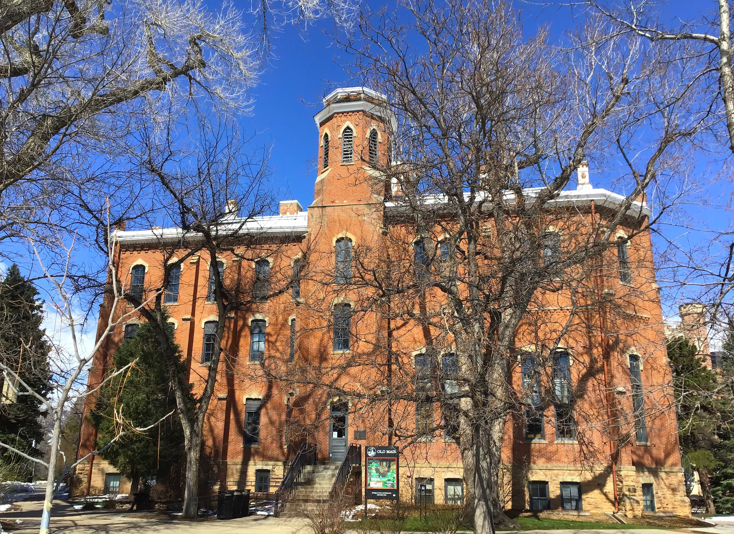 The Old Main at The University of Colorado Boulder